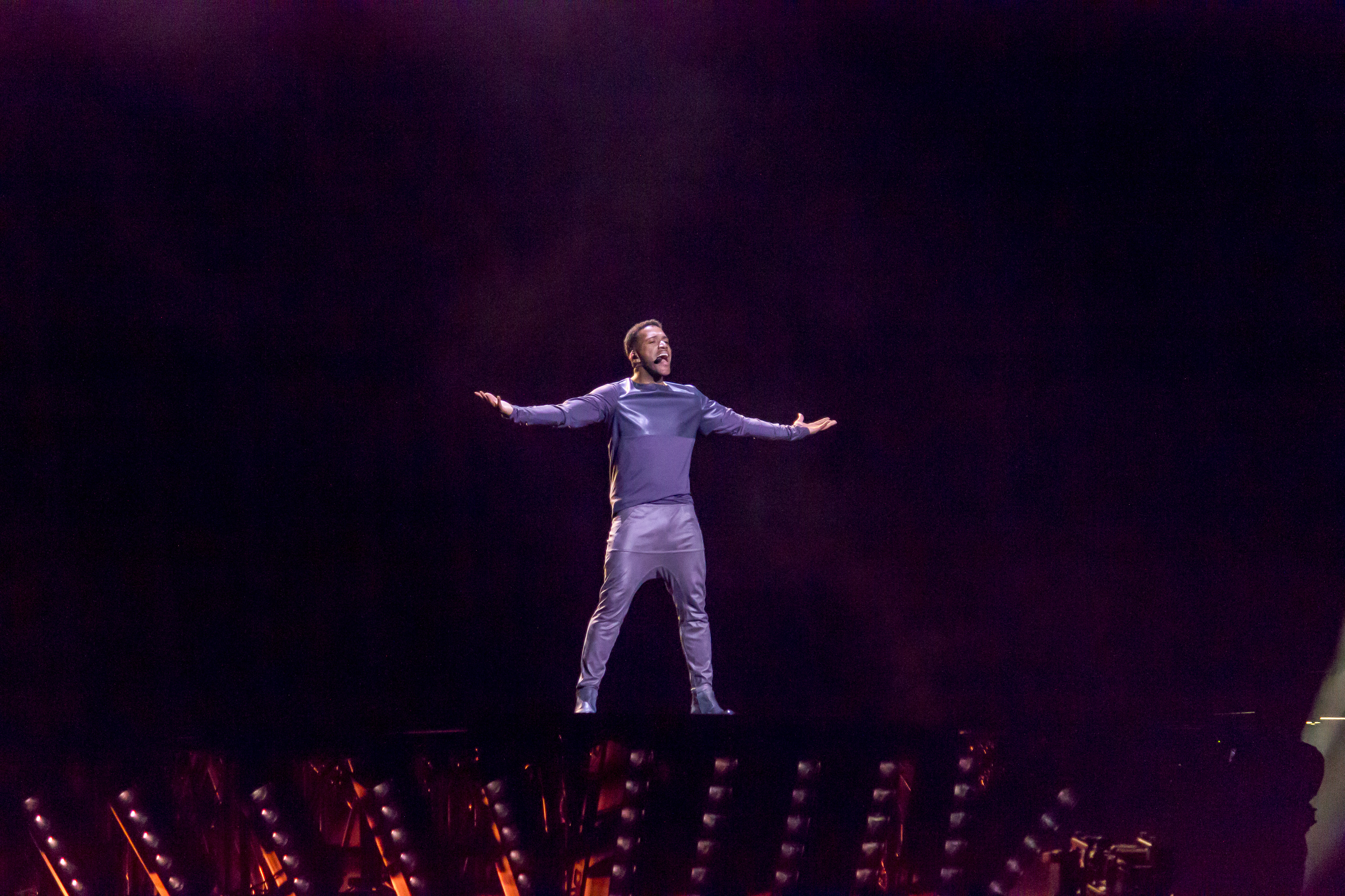 Cesár Sampson representing Austria with the song "Nobody but You" during a rehearsal before the first semi final of the Eurovision Song Contest 2018 in Lisbon.